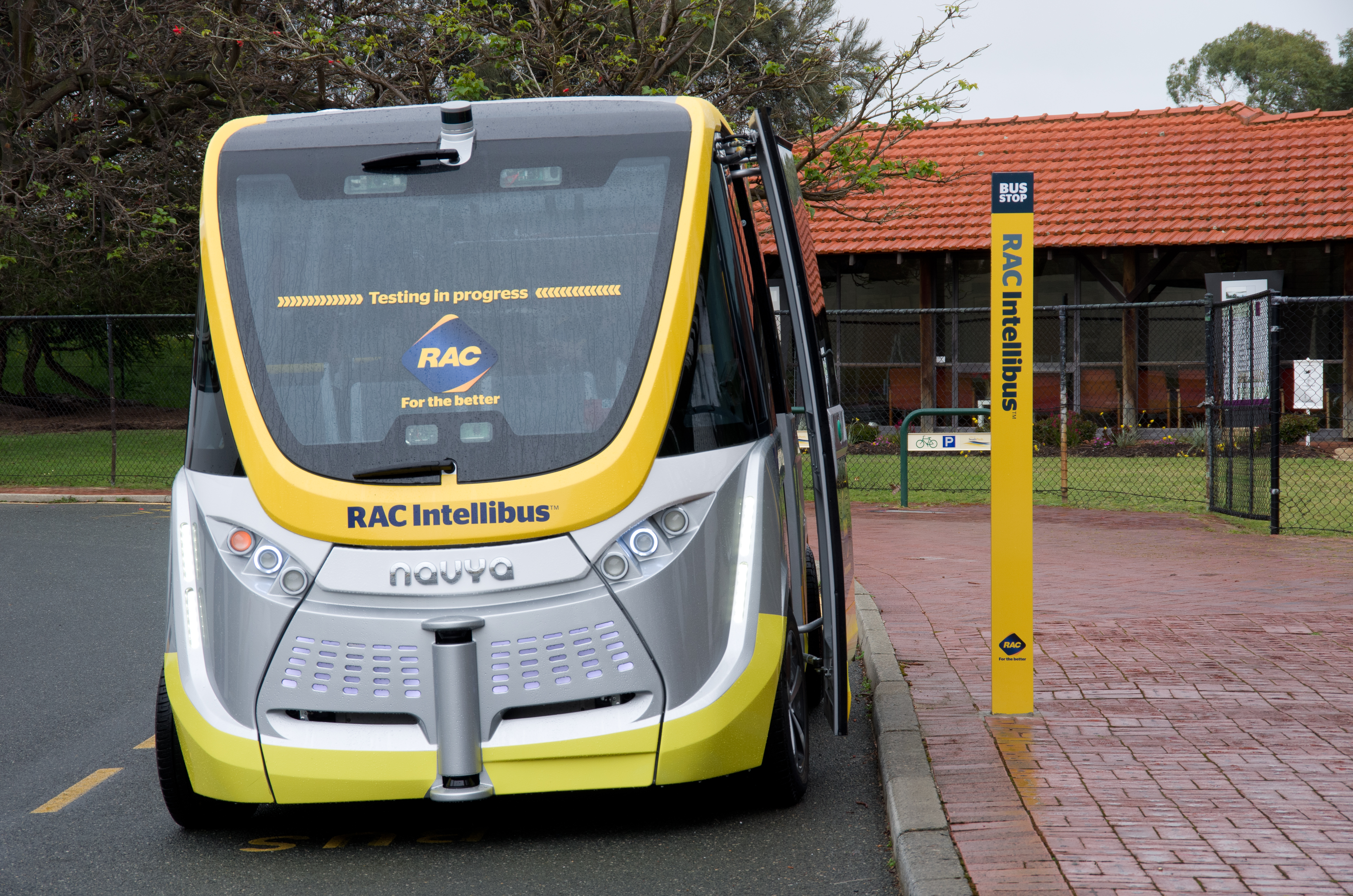 Navya Autonomous bus trail in South Perth, Western Australia